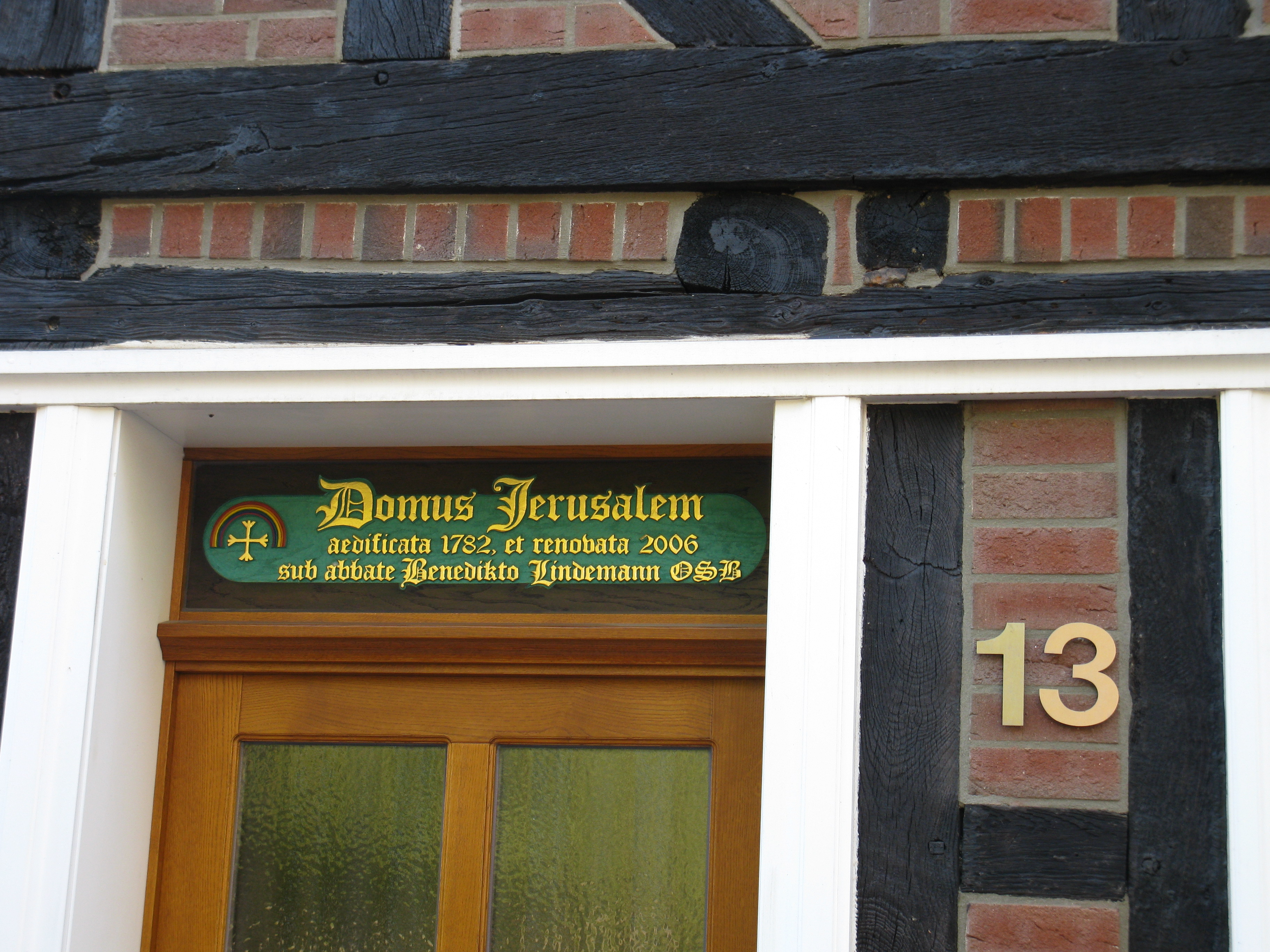 House Jerusalem in the former Jewish part of Hildesheim